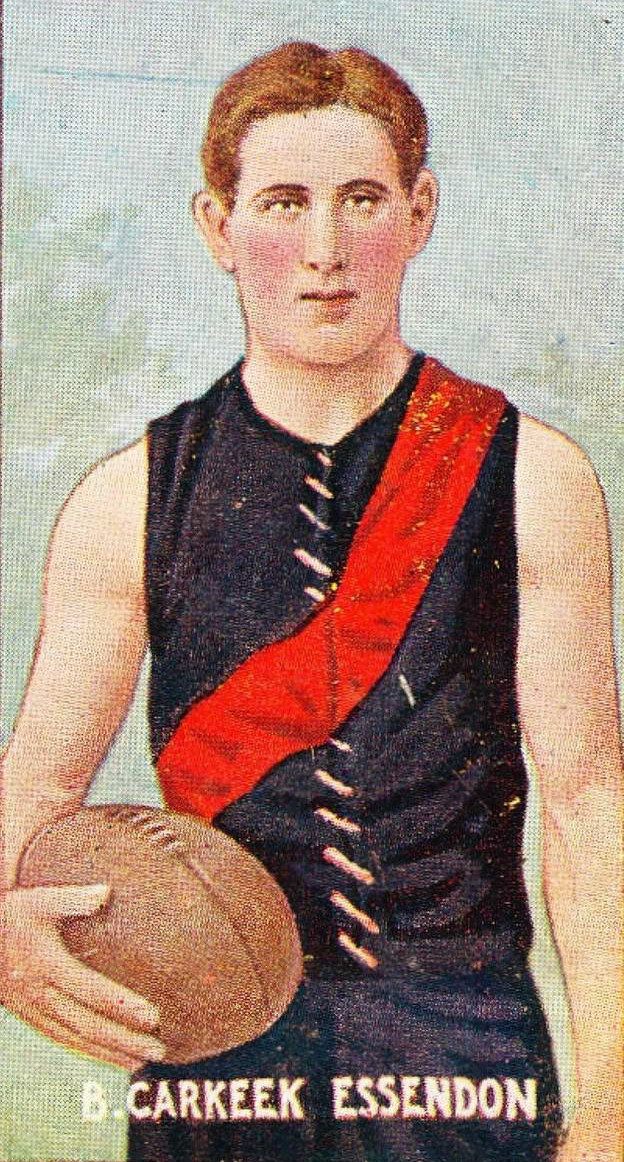 Cigarette card of Barlow Carkeek from the Sniders & Abrahams 1906 series